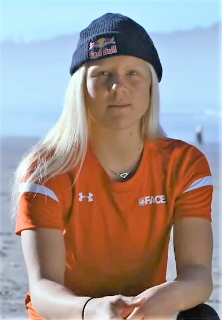 Mathea Olin is a young Canadian surfer from Tofino, British Columbia. The 16-year-old has her sights set on the Summer Olympic Games in 2020 as Canada debuts their first Olympic surf team.